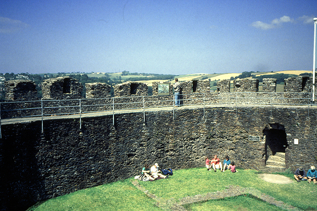 The Ramparts of Totnes Castle. This English Heritage Property is one of the best-preserved Norman shell keeps. It is a motte and bailey castle and there are great views over the River Dart. Cottages and gardens occupy the great ditch that once surrounded the castle. About two thirds of the castle is in this square.